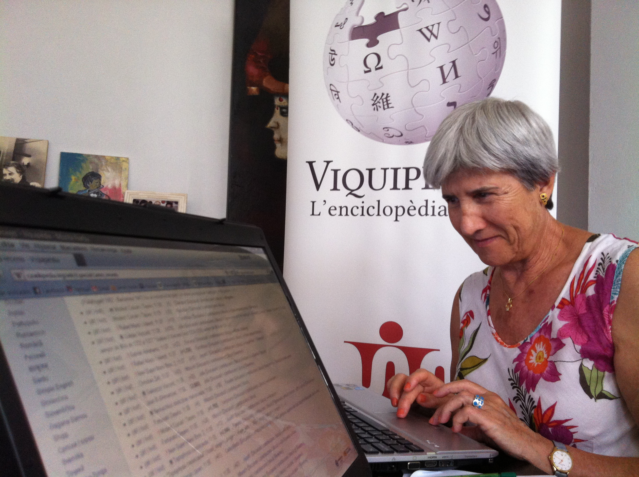 Edit-a-thon at Fundació Modest Cuixart in Palafrugell, Catalonia